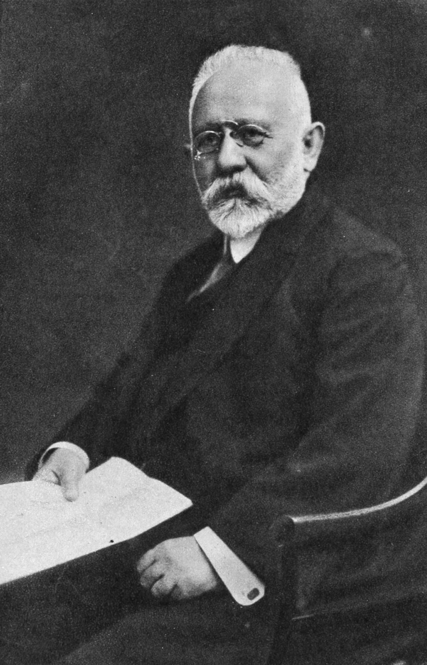 Portrait photo of Rabbi Joseph Samuel Bloch (1850-1923).